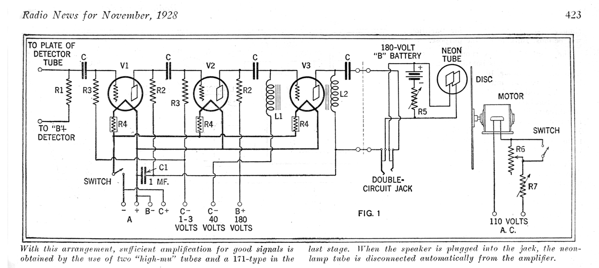 How to Make Your Own Television Receiver. Experimenter Publishing's WRNY began transmitting experimental television in August 1928 to viewers in New York City. Most viewers built their own set. Schematic cropped from Image:Radio News Nov 1928 pg423.png Radio News, November 1928. Volume 10 Number 5. Published by Experimenter Publishing, New York, NY Editor-in-Chief and Publisher: Hugo Gernsback Table of ContentsImage:Radio News Nov 1928 pg402.png Image:Radio News Nov 1928 pg422.png Image:Radio News Nov 1928 pg423.png Image:Radio News Nov 1928 pg424.png Image:Radio News Nov 1928 pg425.png Image:Radio News Nov 1928 pg466.png The page numbers were on an annual basis, not per issue. This issue had pages 401 to 512. The magazine is 8.5 by 11.5 inches (23 by 29 cm).